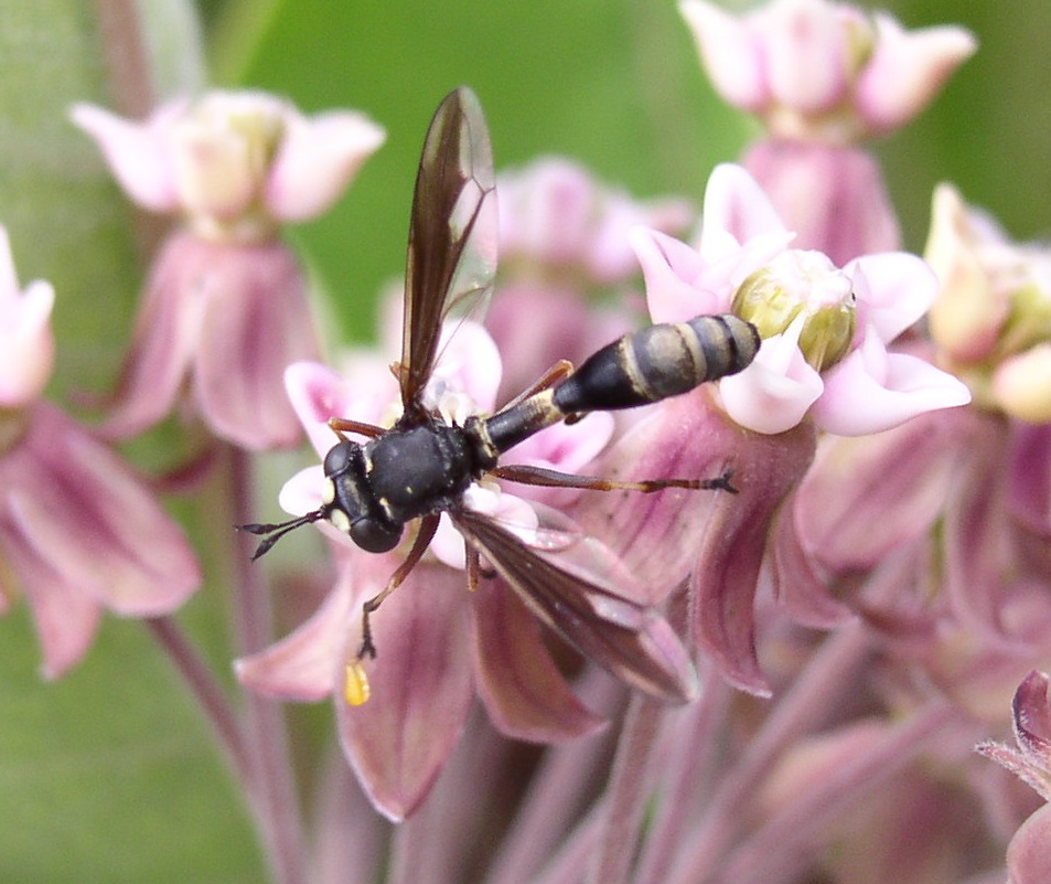 Male conopid fly, Physocephala furcillata, on common milkweed with pollinia on front leg. Tupper Lake, Franklin County, New York, USA.